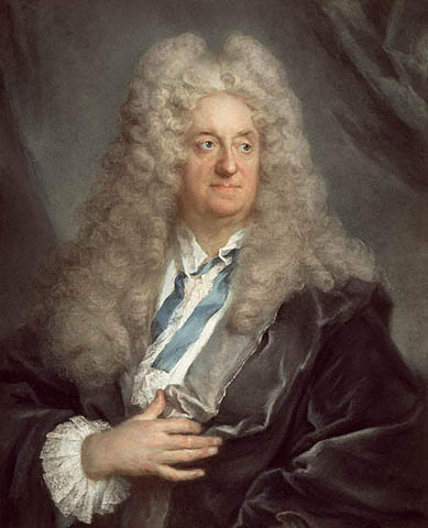 The picture was - for many years - believed to be Samuel Bernard, a banker.